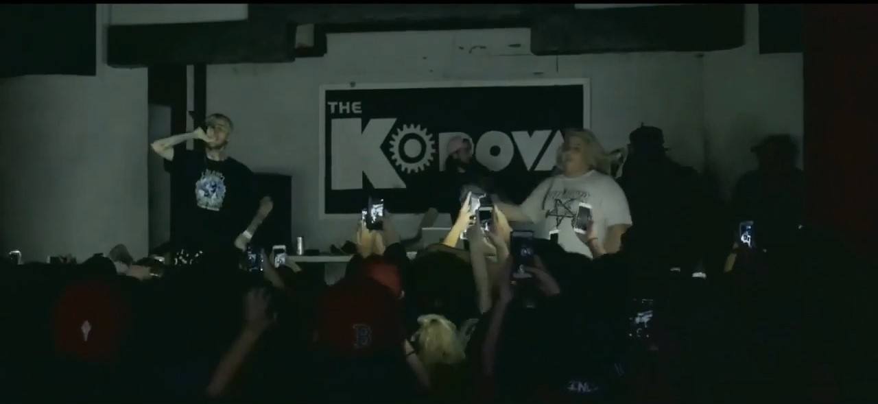 Lil Peep & Fat Nick live in Texas, 11.30.16